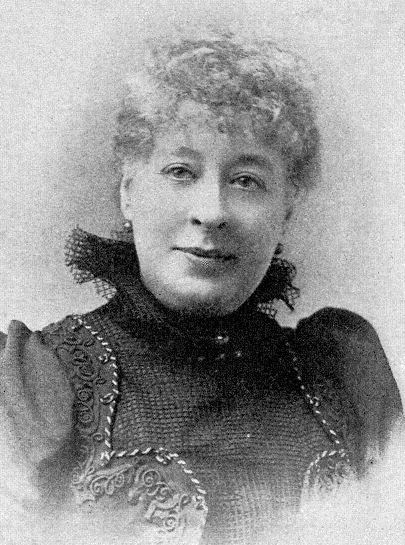 A publicity photo of Rosina Brandram that formed part of an advertisement for The Emerald Isle in the April 24, 1901 issue of The Sketch.